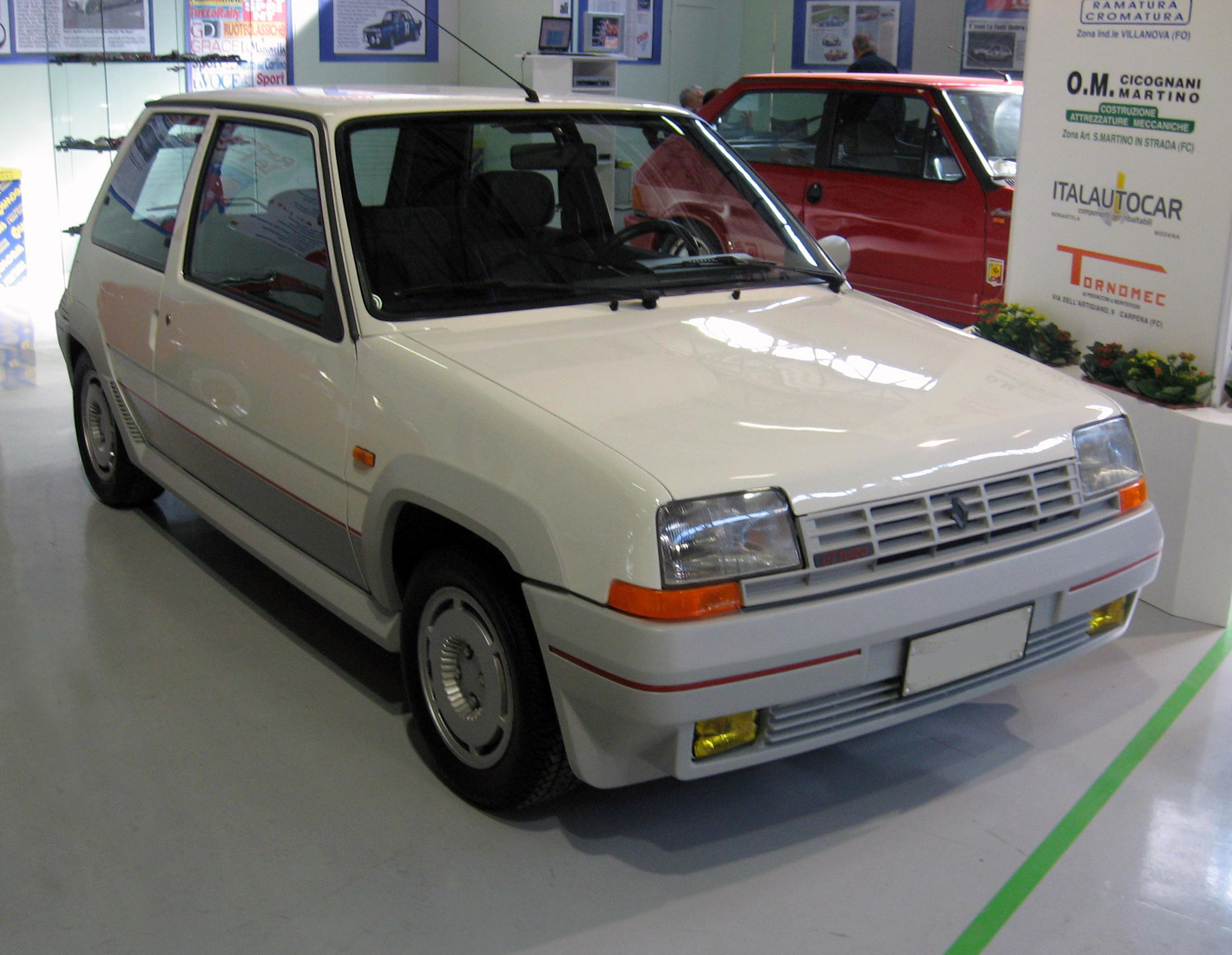 Subject: Renault Supercinque GT Turbo MK1 Author: Luc 106 Date: 18th March 2007 Place: Forlì (Italy) Event: Old Time Show I release all rights in the public domain.